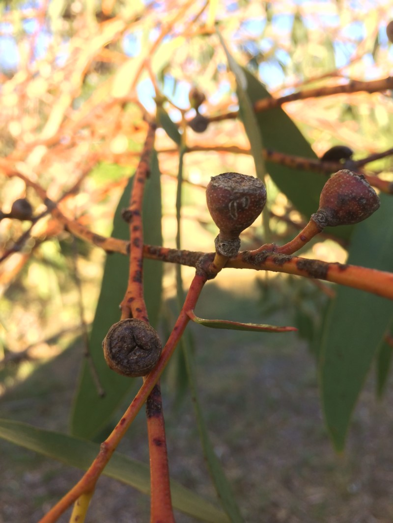 Fruit of Eucalyptus pauciflora subsp. pauciflora near Burra, New South Wales